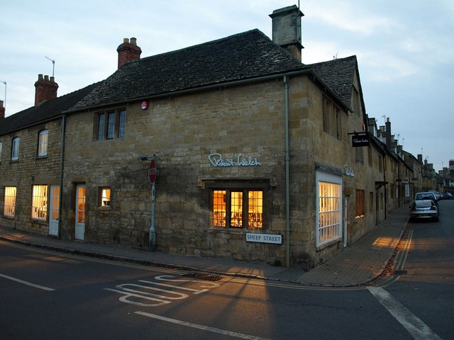 Studio on Lower High Street, Chipping Campden The light fades from the sky and leaps from the windows. Robert Welch occupies a C17 building on the corner of Sheep Street (left) and Lower High Street .